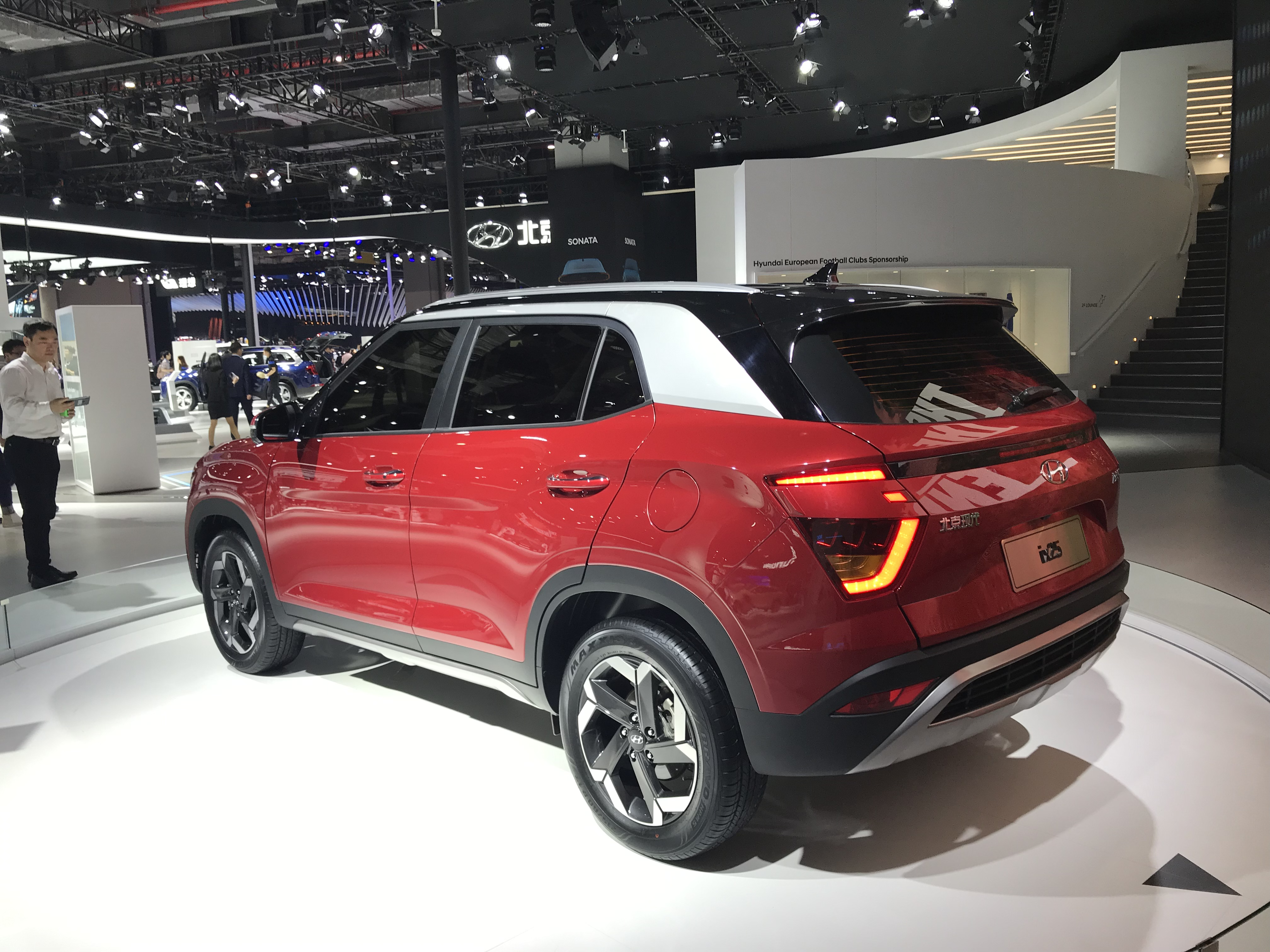 Second generation Hyundai ix25 rear